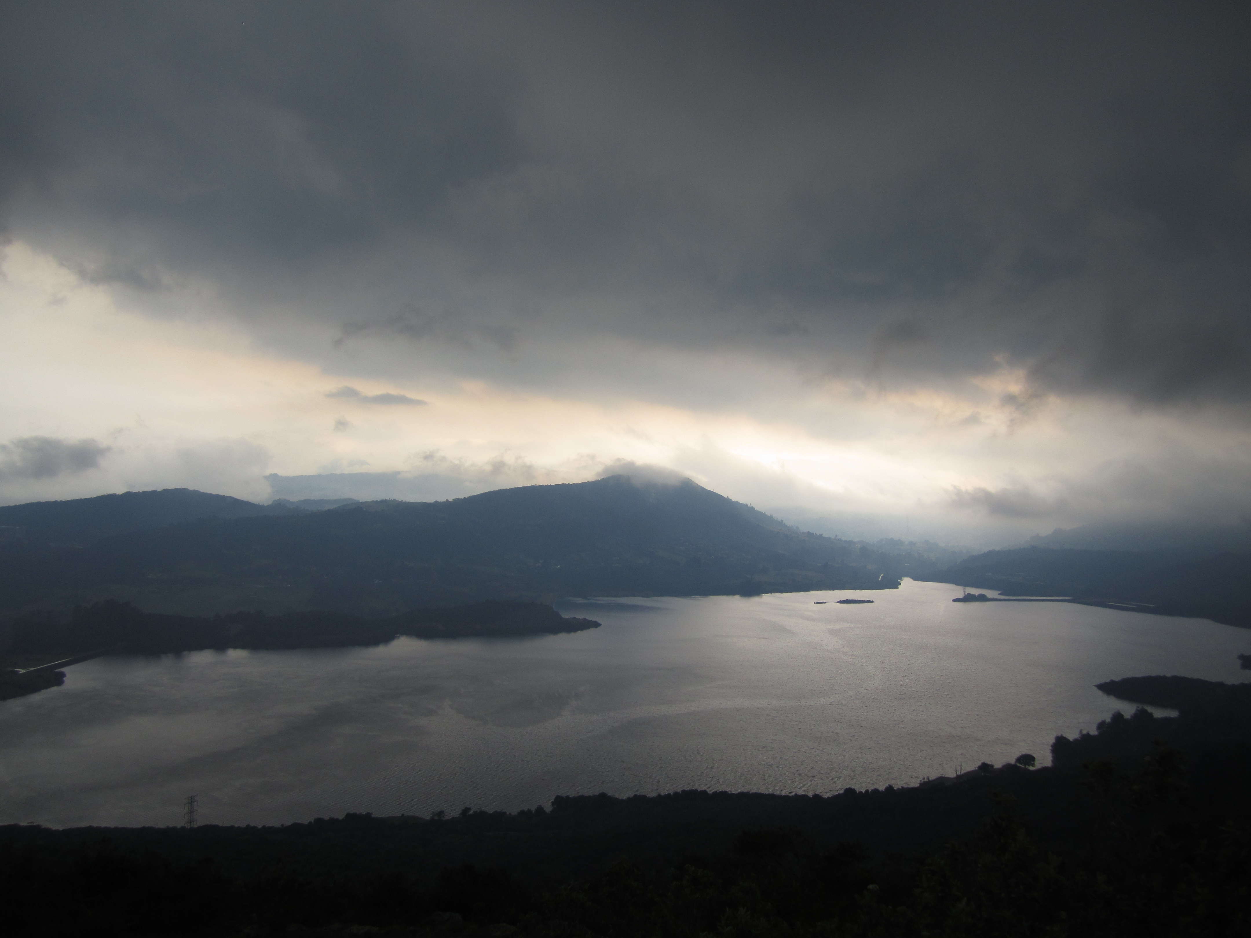 Represa San Rafael from a mountain above La Calera, Cundinamarca, Colombia